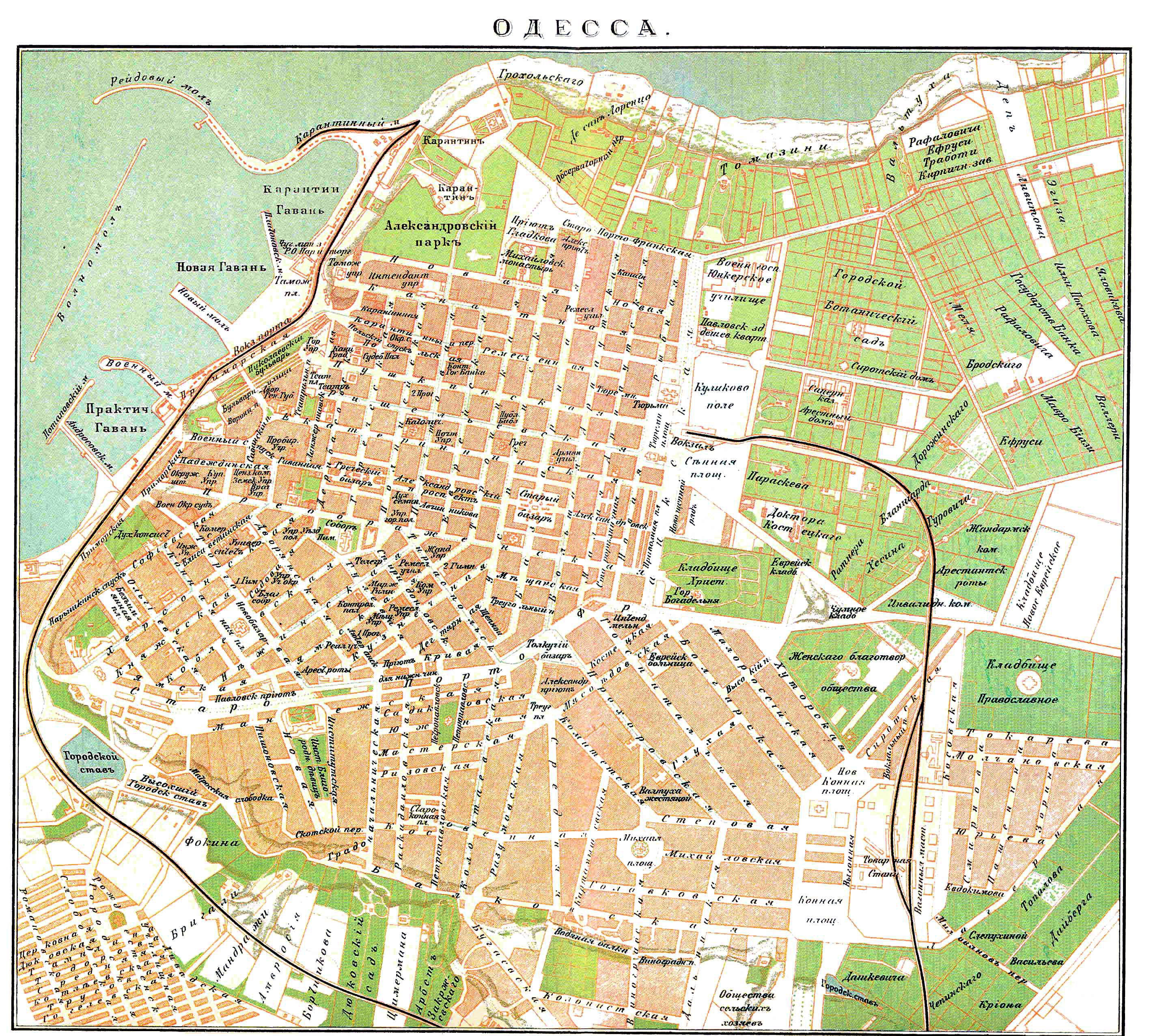 Illustration from Brockhaus and Efron Encyclopedic Dictionary (1890—1907)